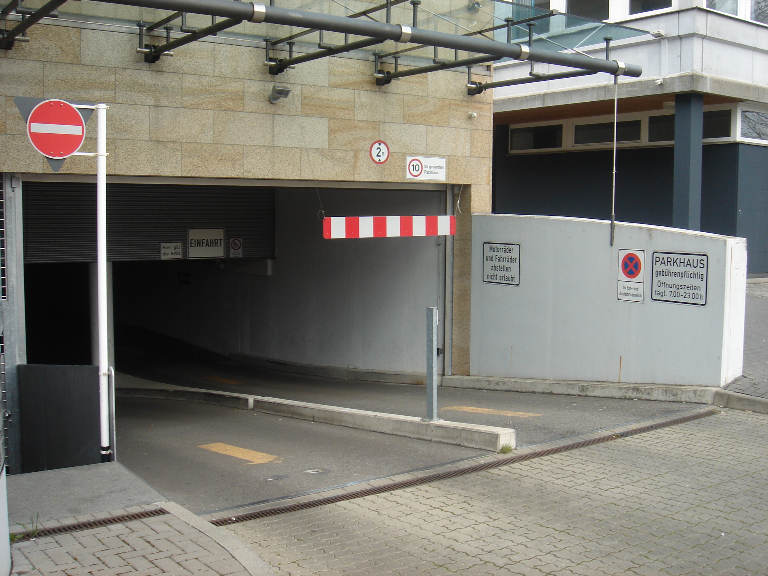 Multi-storey car park of the Kaiserin-Friedrich-Gymnasium, Bad Homburg vor der Höhe, Germany